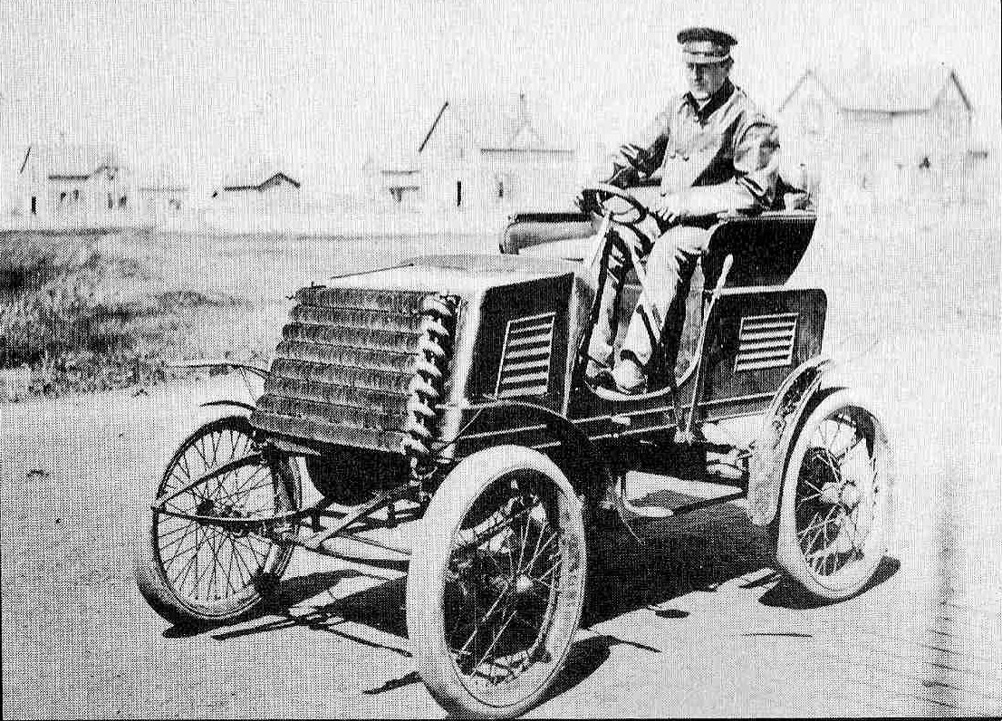 Charles T. Jeffery in his 1901 Rambler prototype automobile. Steering wheel didn't make it into the first production Rambler.